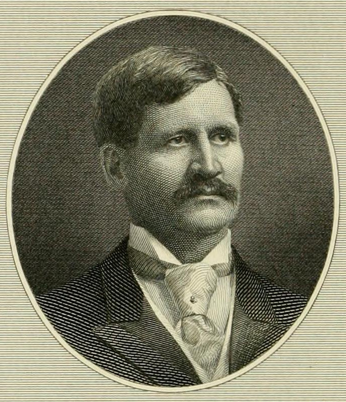 William Henry Flack